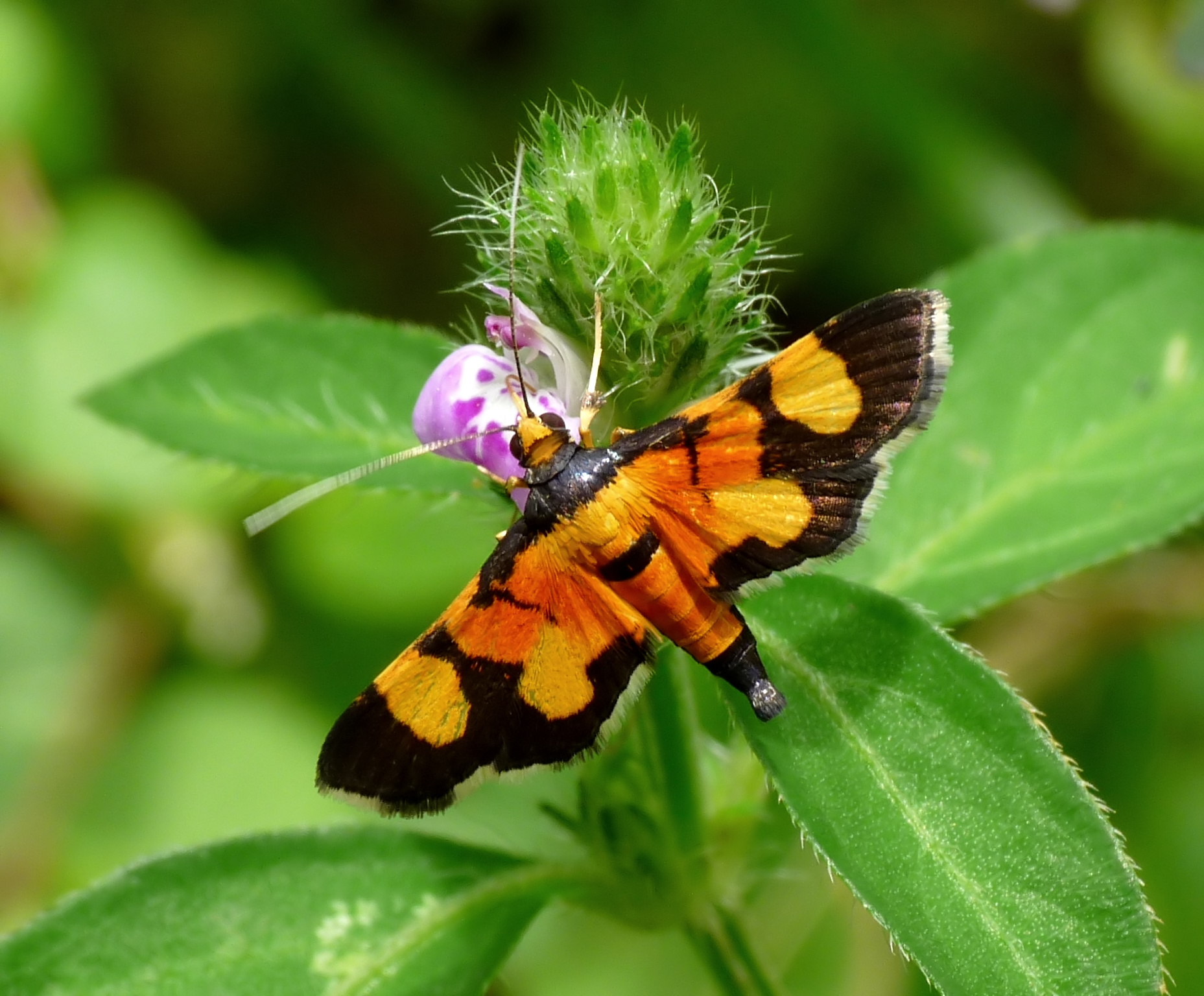 Aethaloessa calidalis. The adult moths of this species are black, with large overlapping orange spots on each wing. The thorax is black and orange. The abdomen is orange with a black tail. The species occurs across south-east Asia and Australia. Aethaloessa is a genus of moths of the Crambidae family. The Crambidae are the grass moth family of Lepidoptera (butterflies and moths). They are quite variable in appearance, the nominal subfamily Crambinae (grass moths) taking up closely folded postures on grass stems where they are inconspicuous, while other subfamilies include brightly coloured and patterned insects like this one rest in wing-spread attitudes. Taken at Kadavoor, Kerala, India.